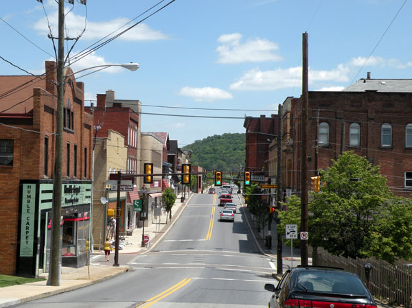 Picture of West Pike Street near the intersection of North Jefferson Avenue in Canonsburg, Pennsylvania.